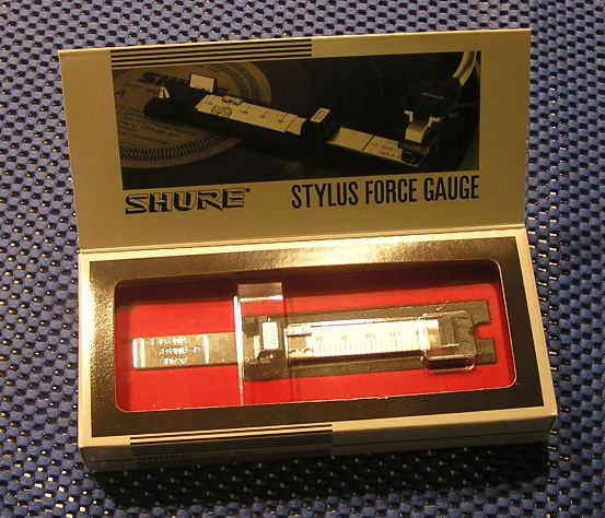 Shure SFG-2 stylus force gauge, in packaging.